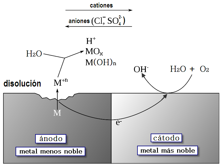 Principle of galvanic corrosion: * anode-oxidation (less noble metal): dissolution of metal, reaction with water, acidification; * cathode-reduction (noblest metal): reaction of water and dissolved dioxygen, alcalinisation; * migration of ions due to the difference of electric potential, accumulation of anions around the anode.